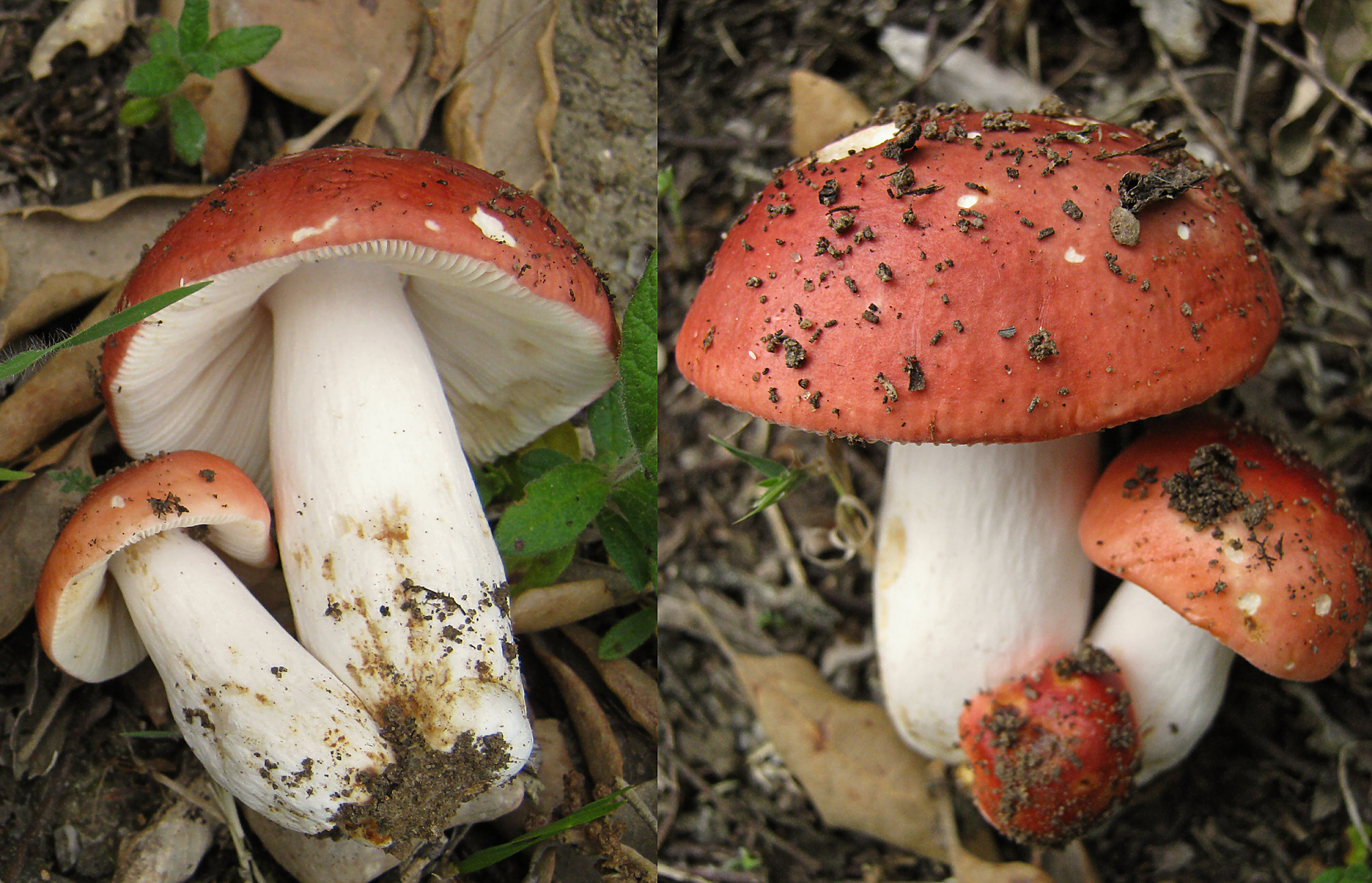 Russula lepida Image location: Lourinhã, Portugal Found under Quercus trees. Taste and odor light menthol. Based on microscopic features For more information about this, see the observation page at Mushroom Observer.